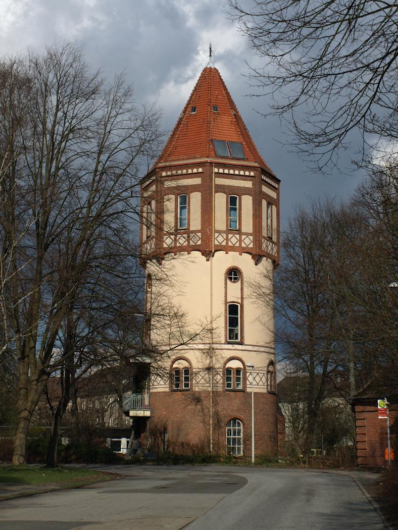 Kiel, Schleswig-Holstein (Germany), Water tower Kiel-Wik, photo 2011